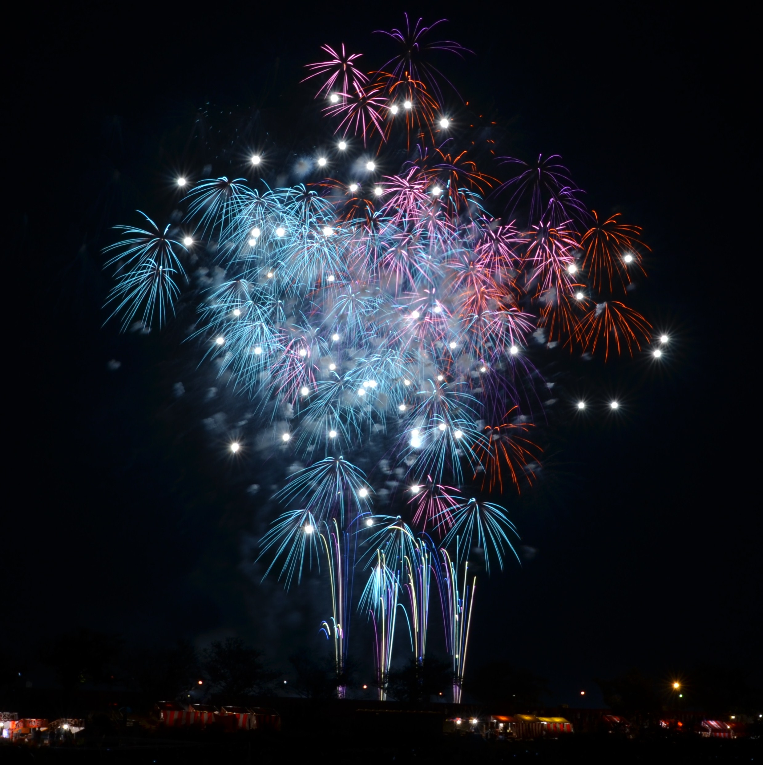 80th Tsuchiura All Japan Fireworks Competition. Nikon D7000